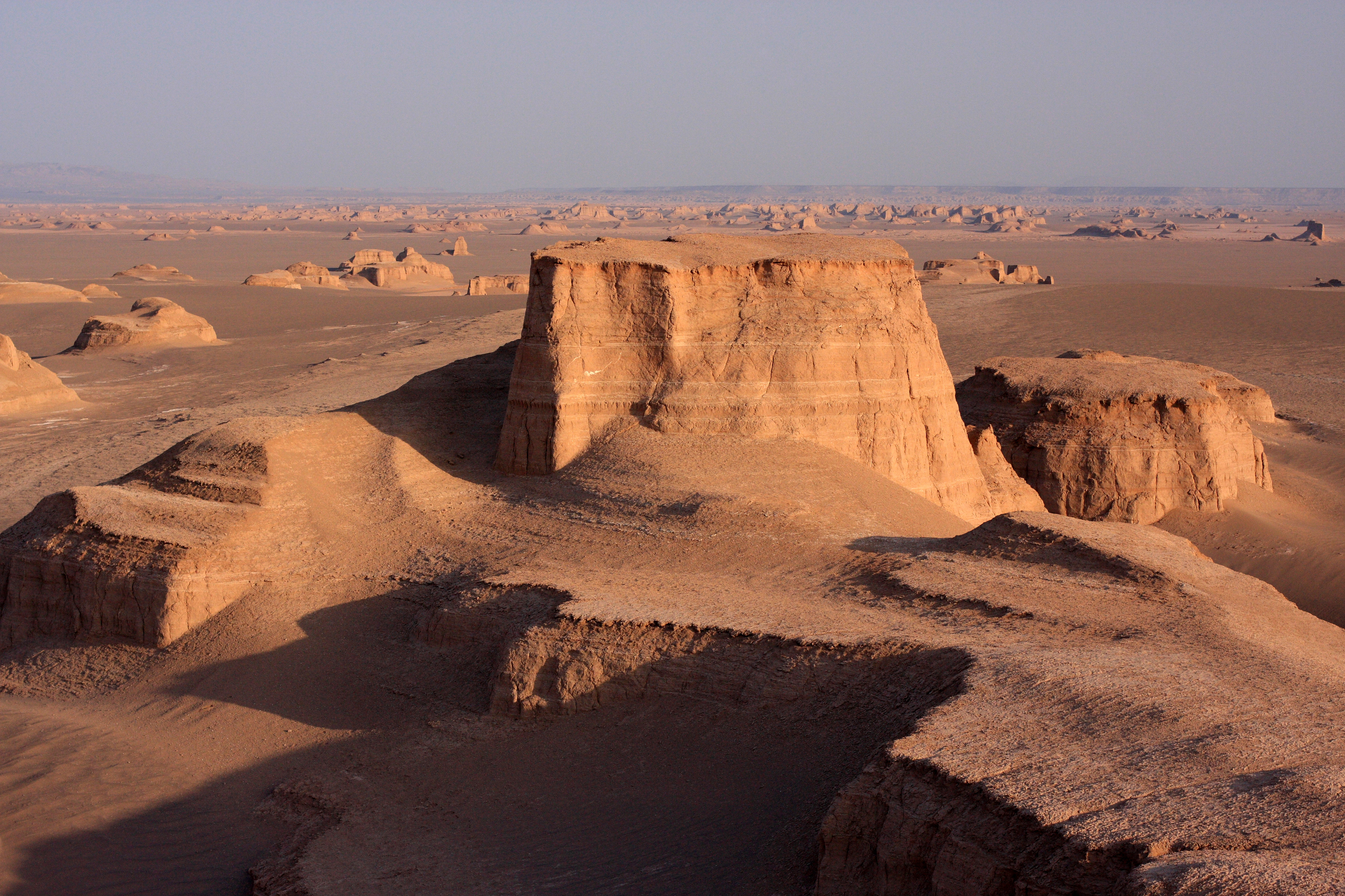 Kaluts (yardangs), Dasht-e Lut, Iran